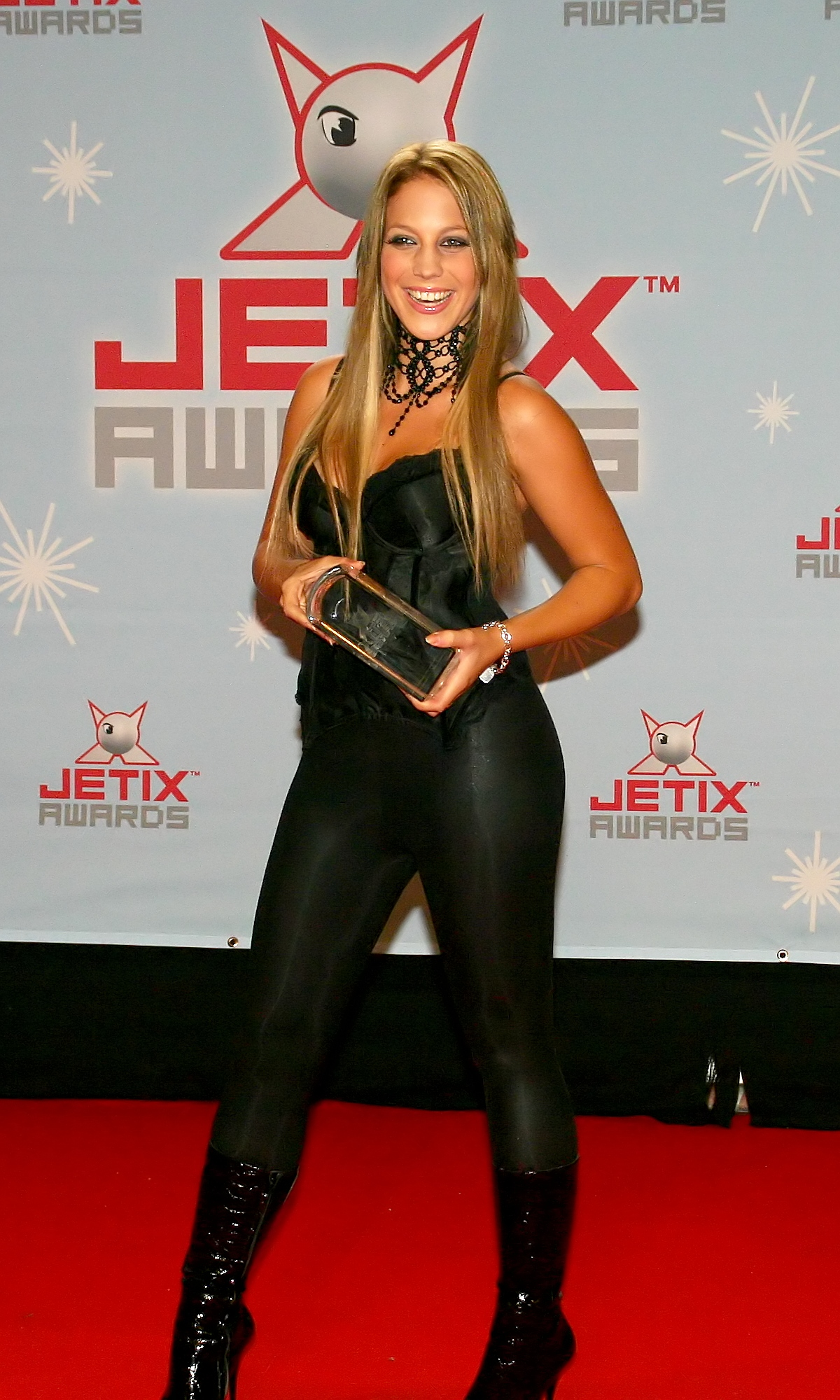 LaFee during the conferment of the JETIX Award at the youth fair "YOU", Berlin